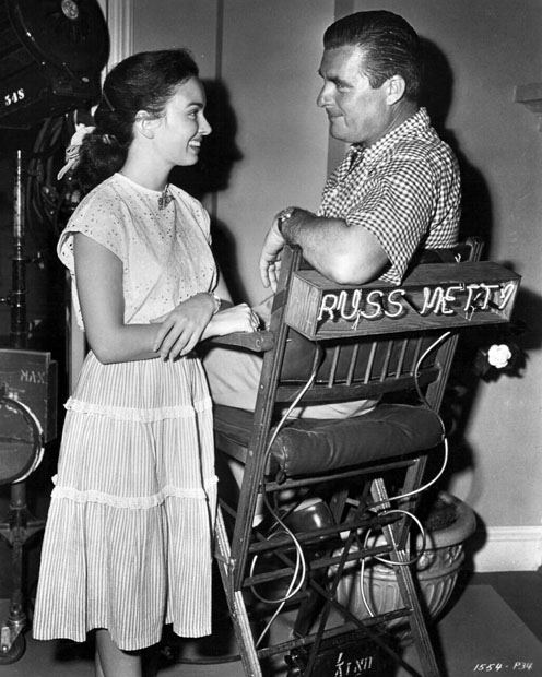 Ann Blyth and Russell Metty (cinematographer) on the set of A Woman's Vengeance (1948) - publicity still